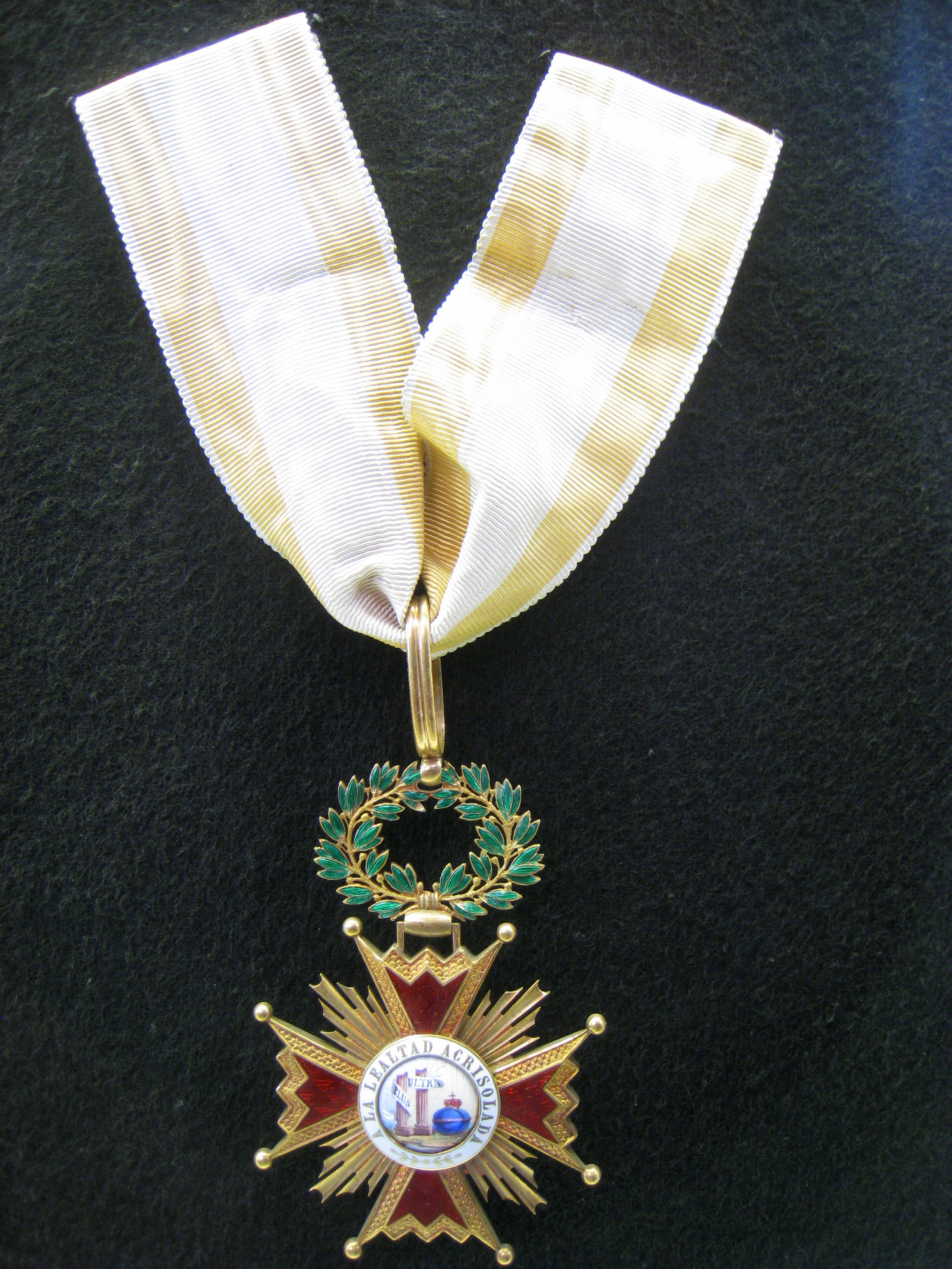 Order of Isabella the Catholic (Spain), from the collection of Don Pedro Christopherson. In the Fram Museum, Oslo, Norway.